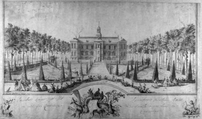 Jaegersborg Palace (Jægersborg Slot) outside Copenhagen.